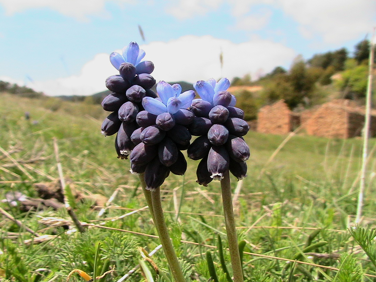 Muscari neglectum. In Guixers (Solsonès-Catalunya). To 1.430 m. altitude